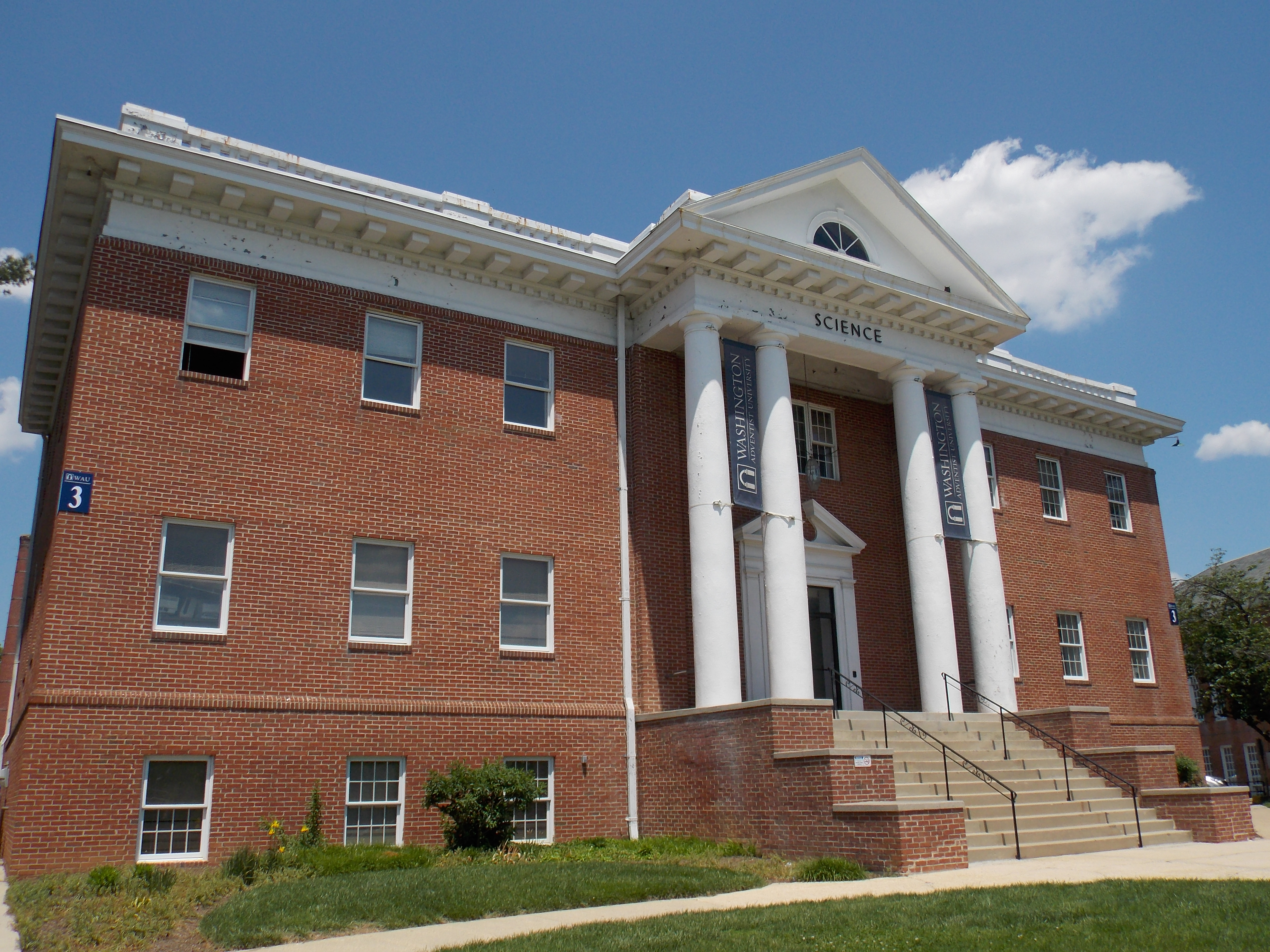 Science Building at Washington Adventist University in Takoma Park, Maryland, USA.